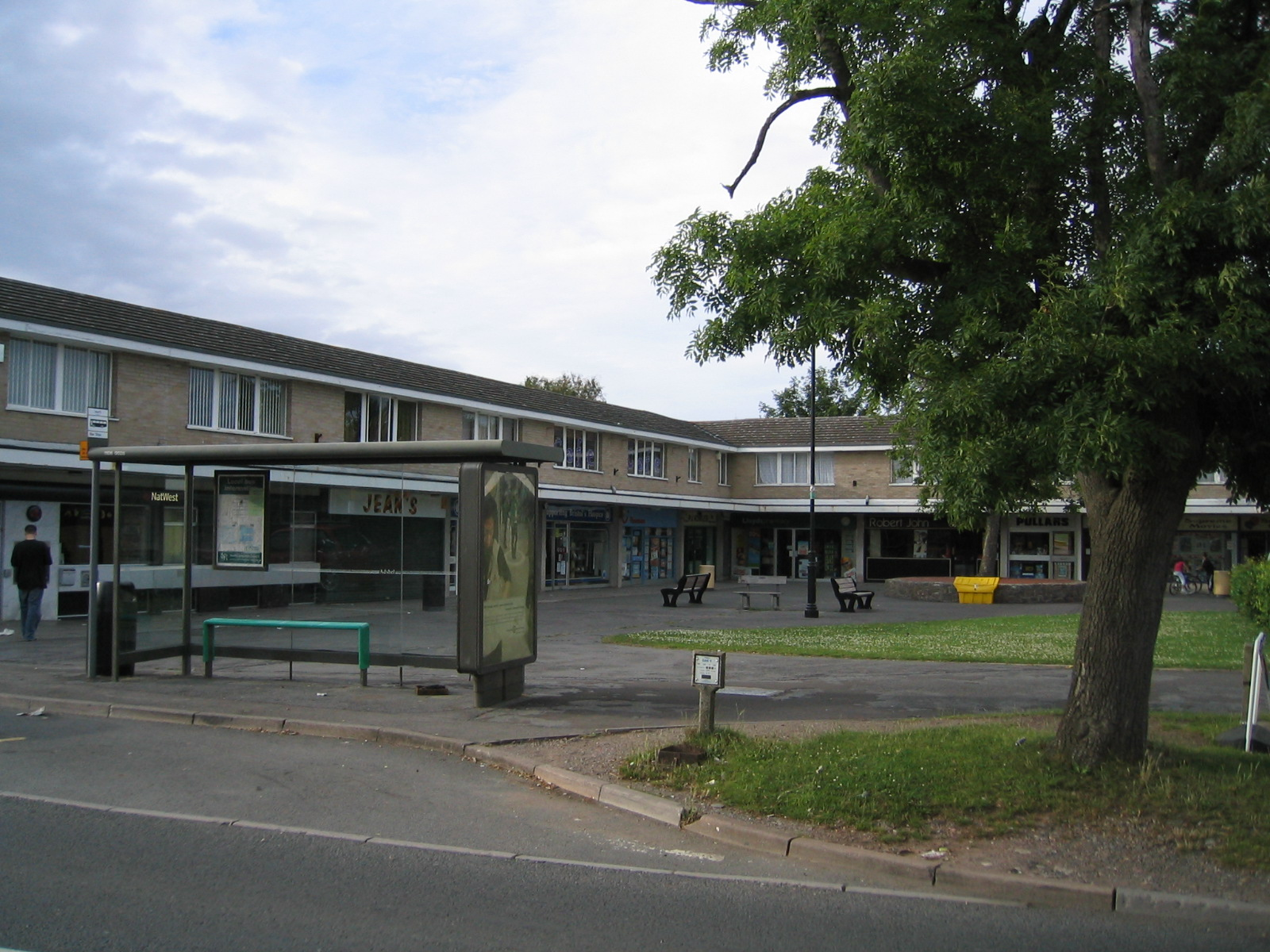 "Pages Court", the primary shopping precinct in Yatton, North Somerset, England. Photo taken by me 2005-07-03.